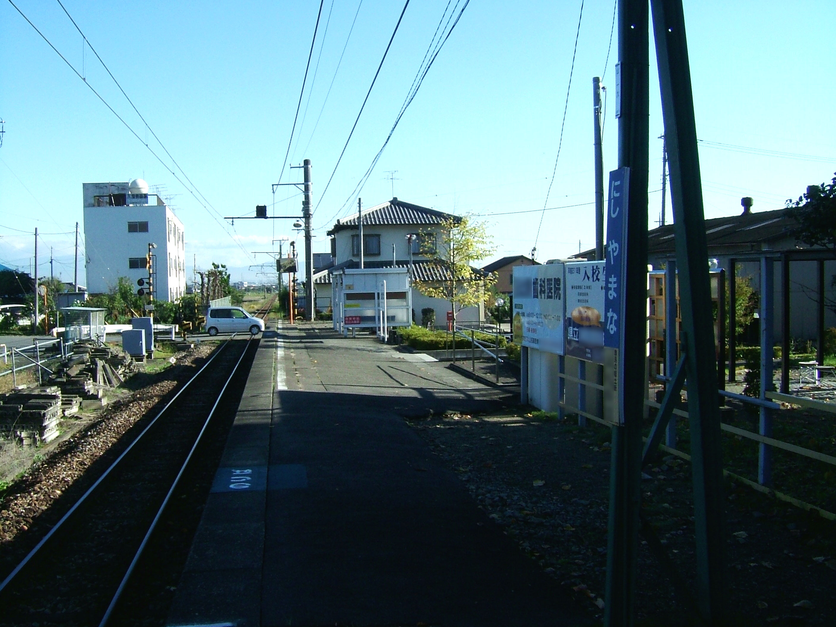 Nishi-Yamana Station platform (Jōshin Dentetsu Jōshin Line)